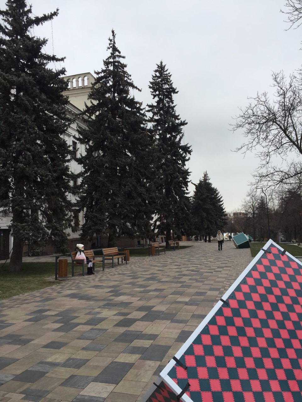 Central Square in Mariupol